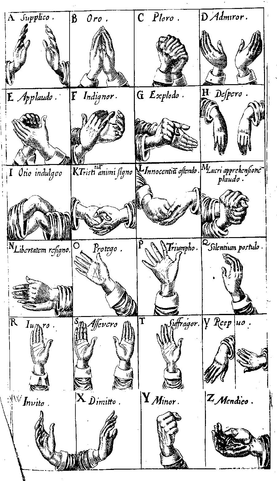 Listing of gestures used to emphasize rhetorical appeals, associated with letters of the alphabet for memorization.